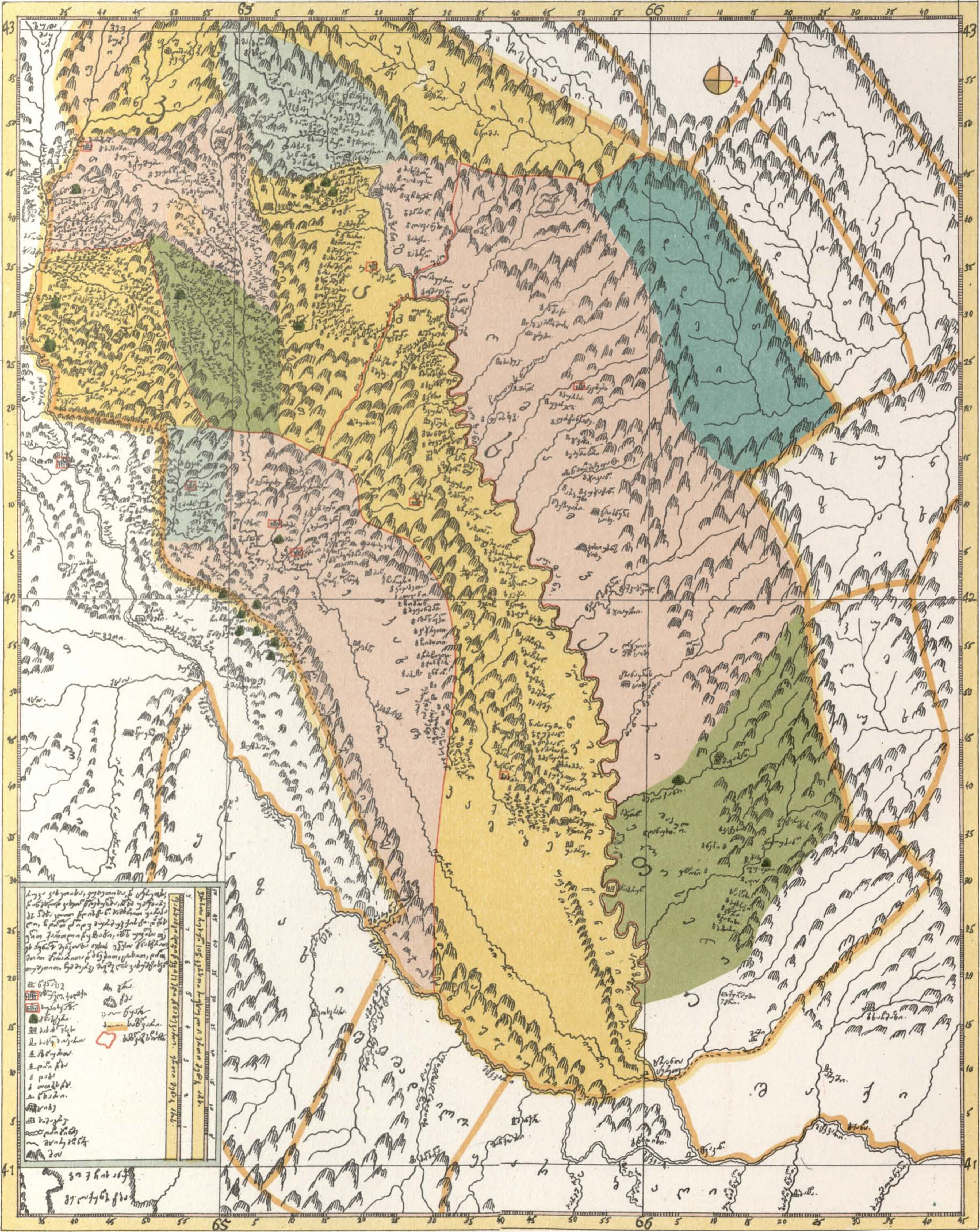 Map of Georgia by Prince Vakhushti Bagrationi